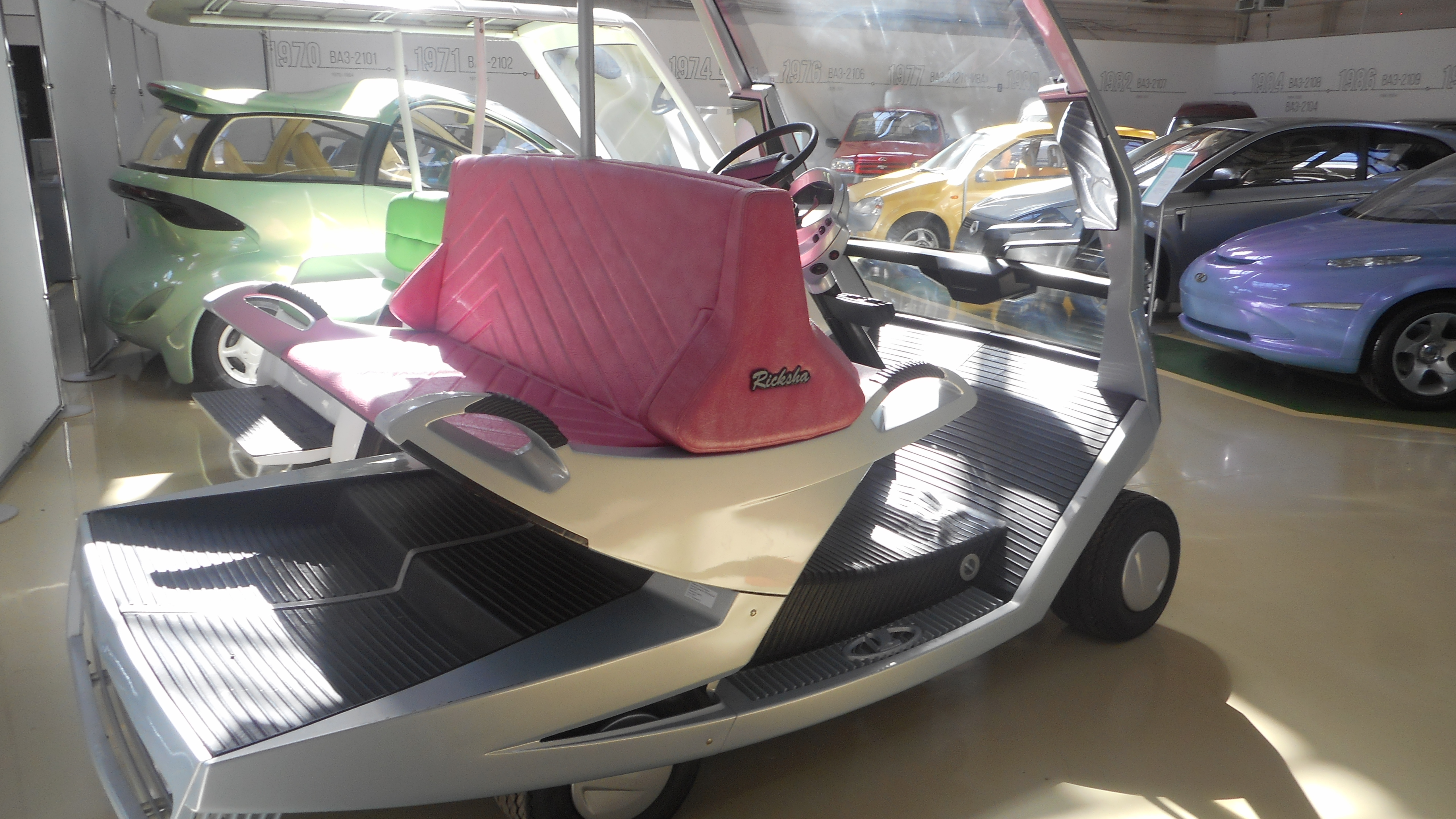 LADA Ricksha